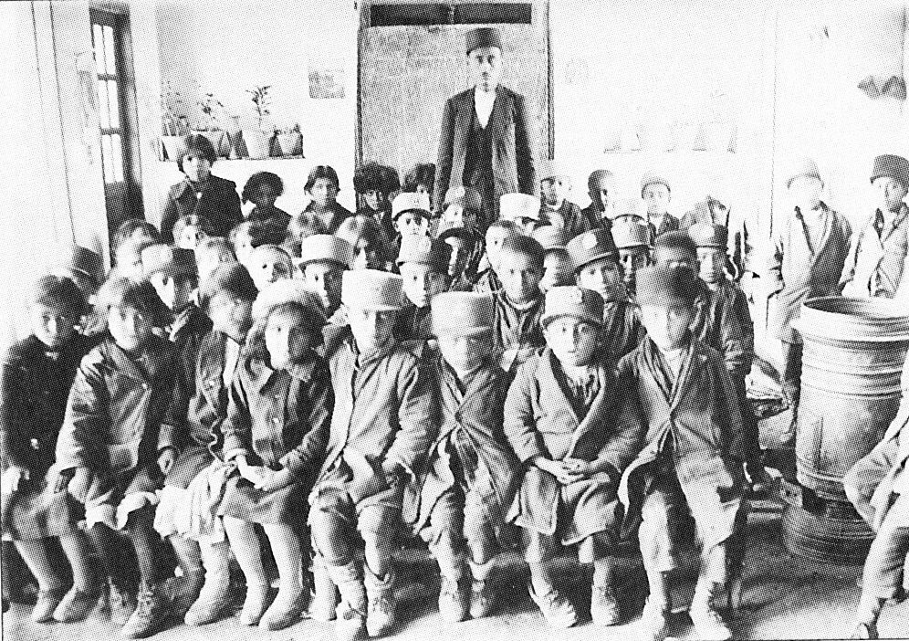 School in Iran